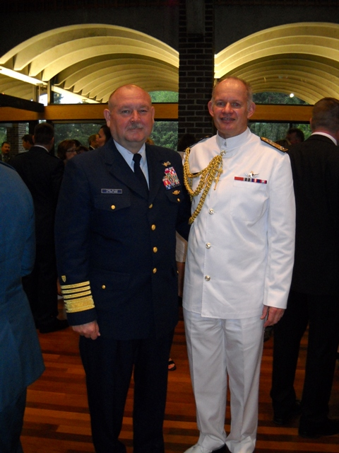 New Zealand Vice Chief of Defence Force, Rear Admiral Jack Steer meets with Admiral Thad Allen